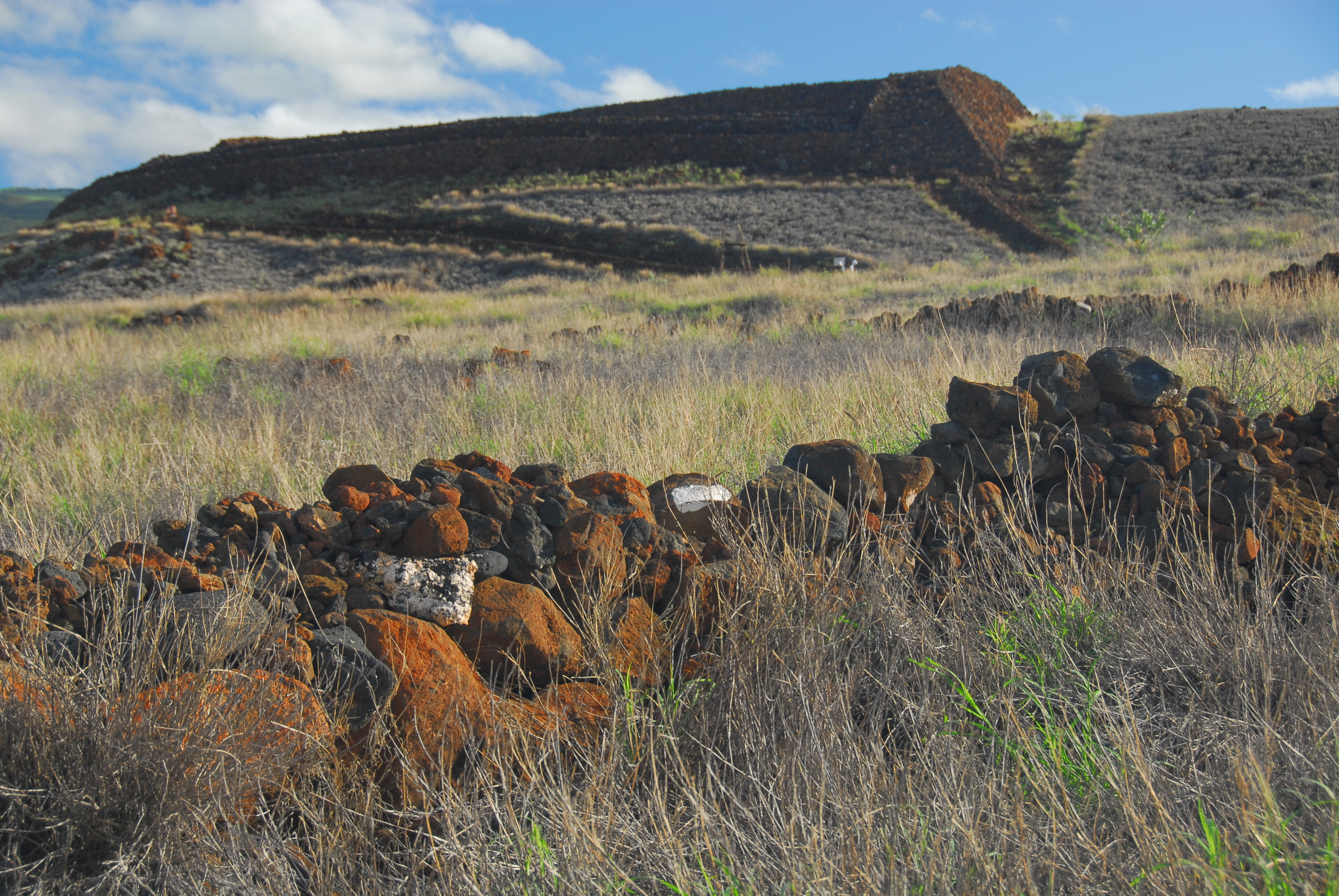 Pu'ukoholā Heiau National Historic Site